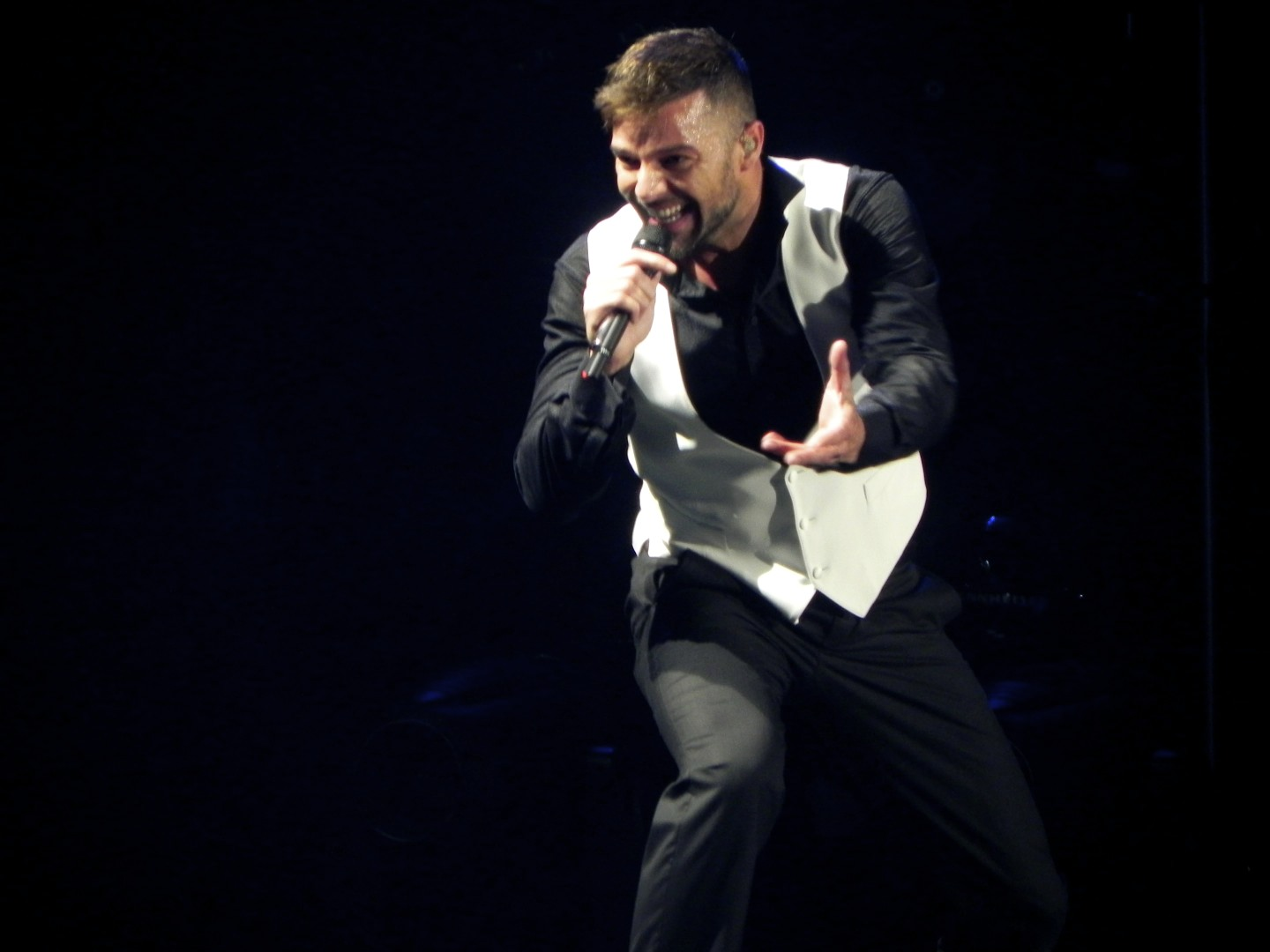 Ricky Martin in concert.